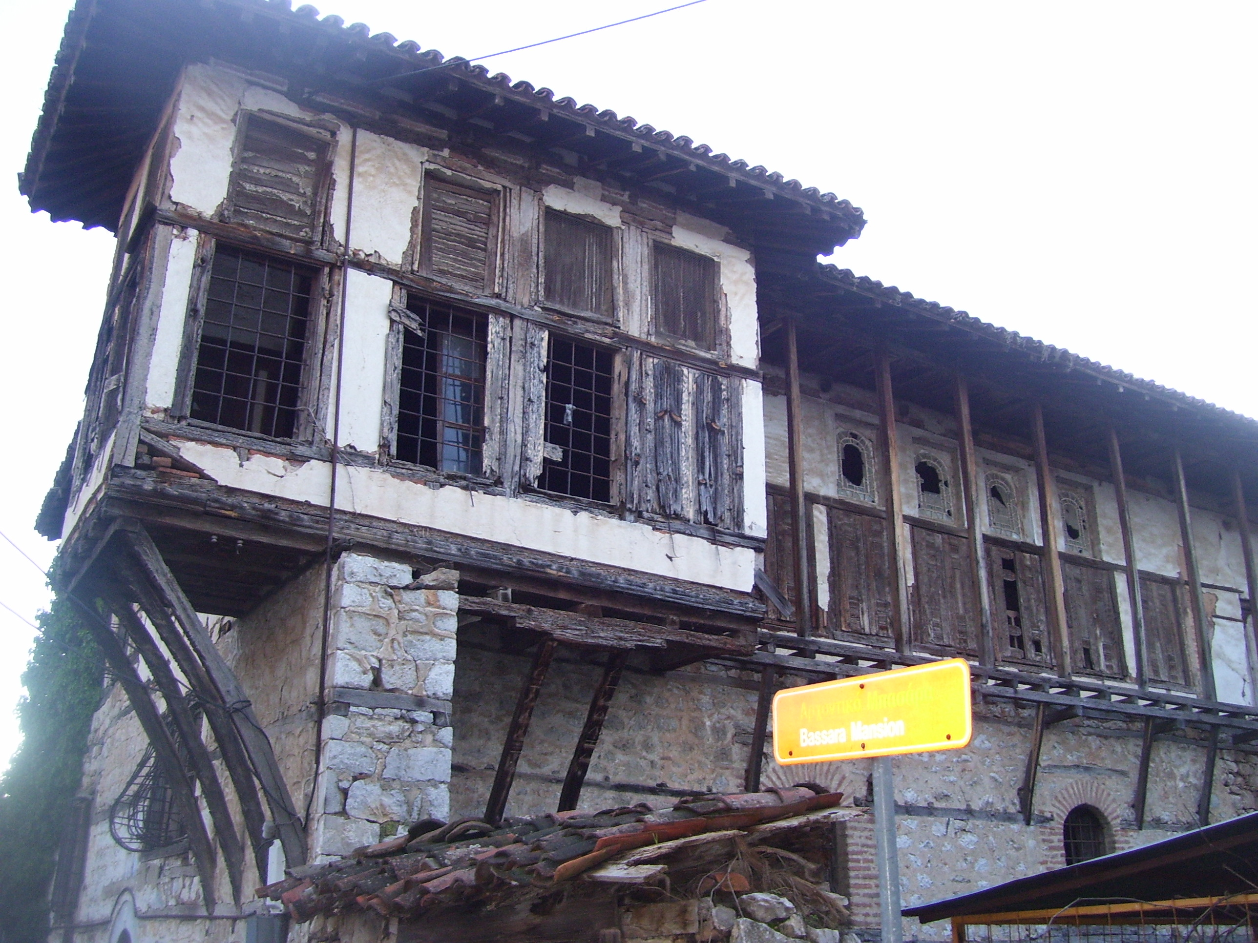 Bassaras Mansion in Doltso, Kastoria